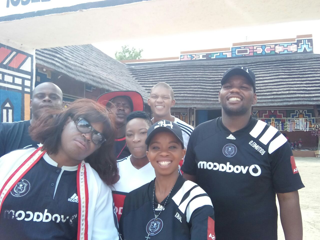 Orlando Pirates supporters